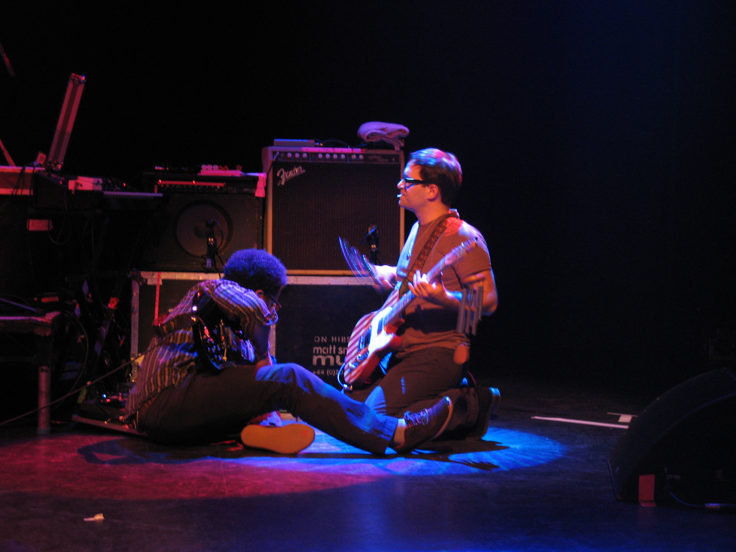 TV on the Radio